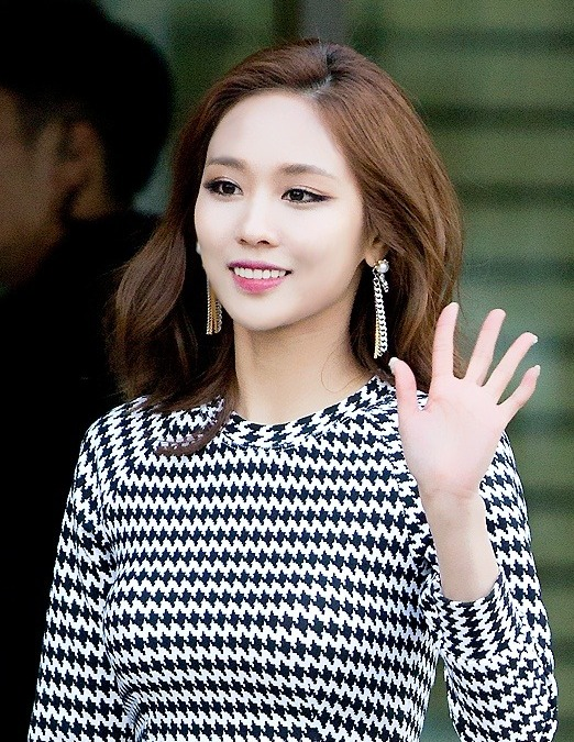 Wang Feifei at 2014 K-Pop Awards red carpet